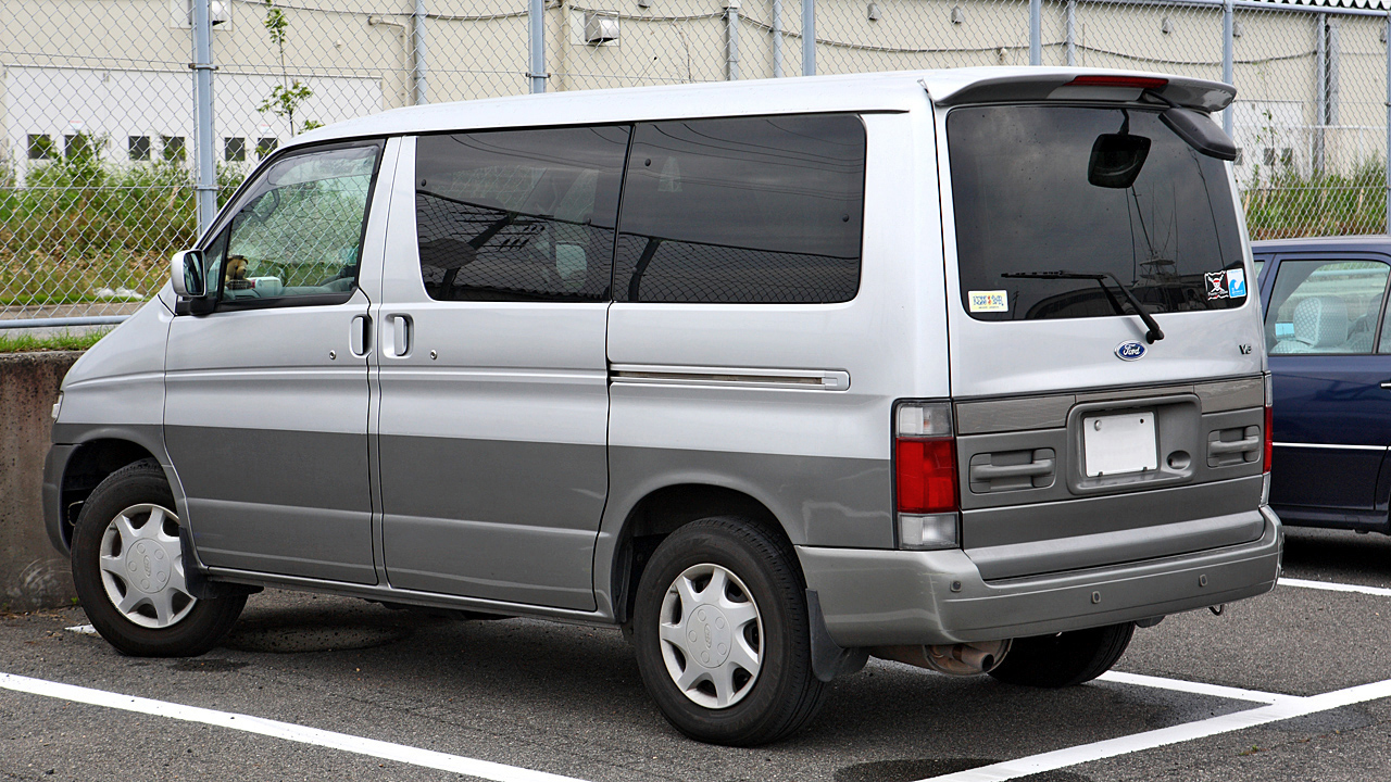 Ford Freda ( OEM of Mazda Bongo Friendee )